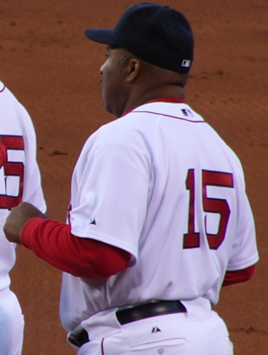 Andy Phillips of the New York Yankees stands at first base with Mike Lowell and Ron Jackson of the Boston Red Sox during a 2006 game at Fenway Park in Boston.